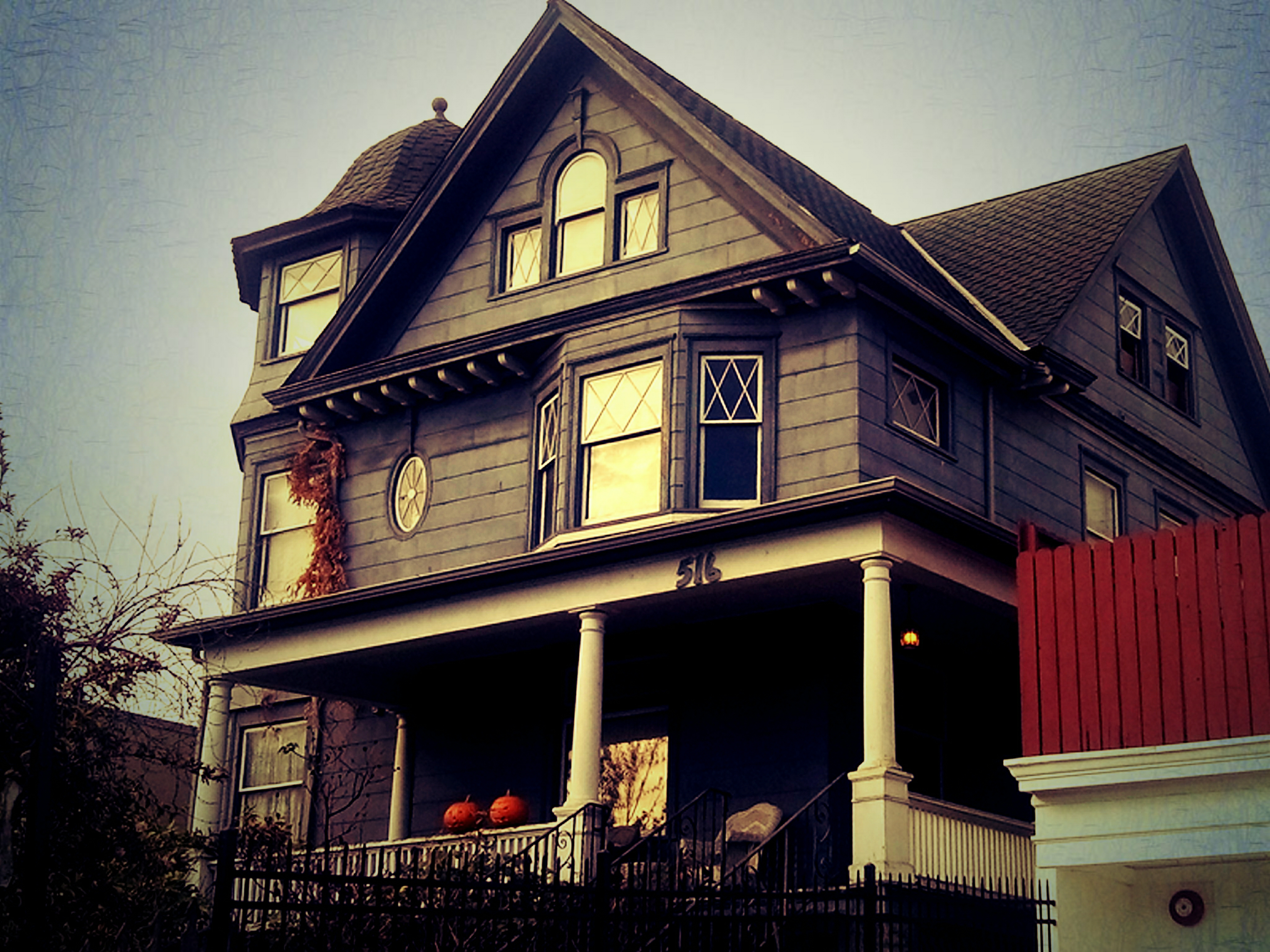 A house decorated with halloween theme. Photo taken on Tacoma, United States.